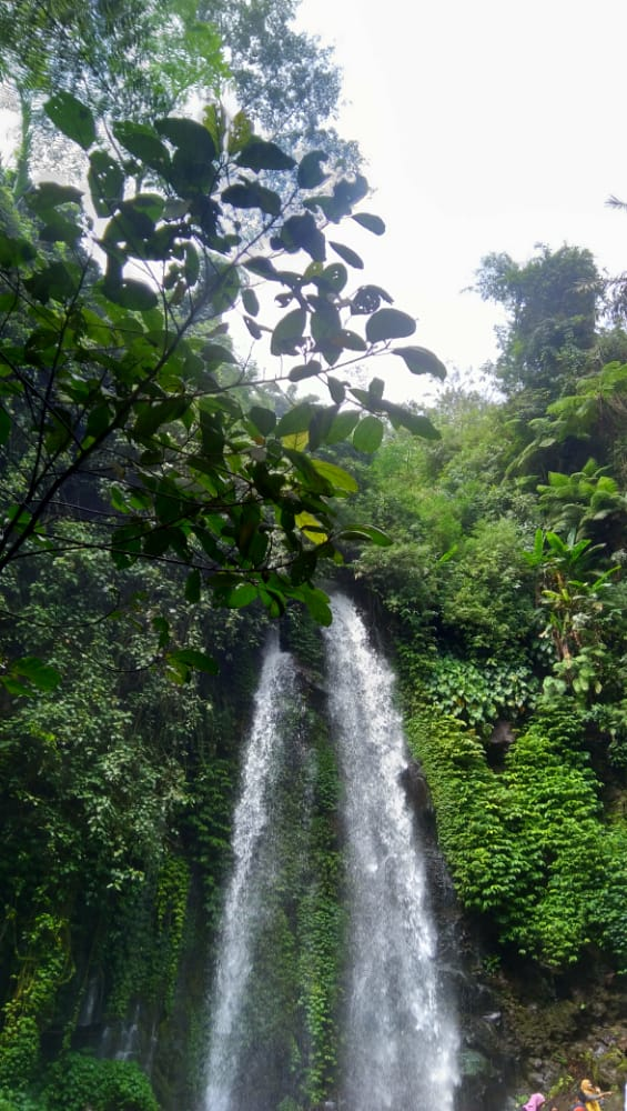 Jumog waterfalls